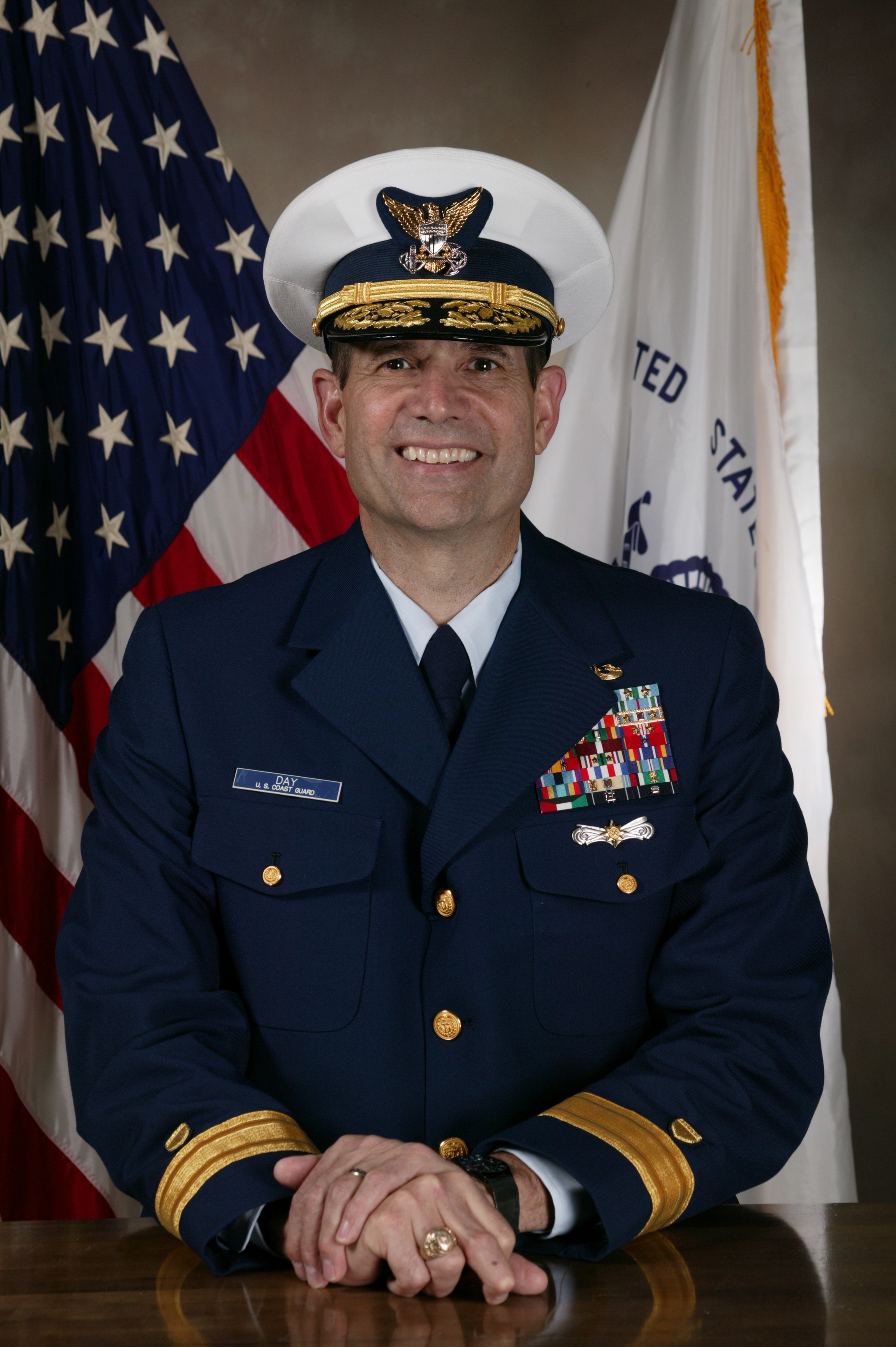 RDML Steven Day, United States Coast Guard Reserve